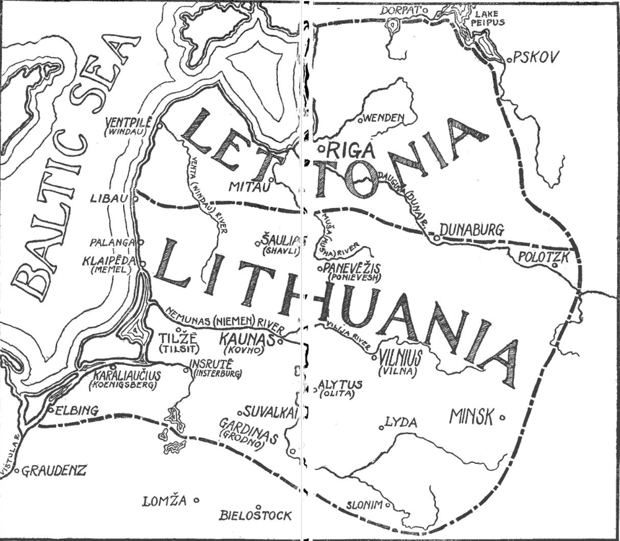 Map of Lithuania–Latvia state as envisioned and proposed by Jonas Šliūpas